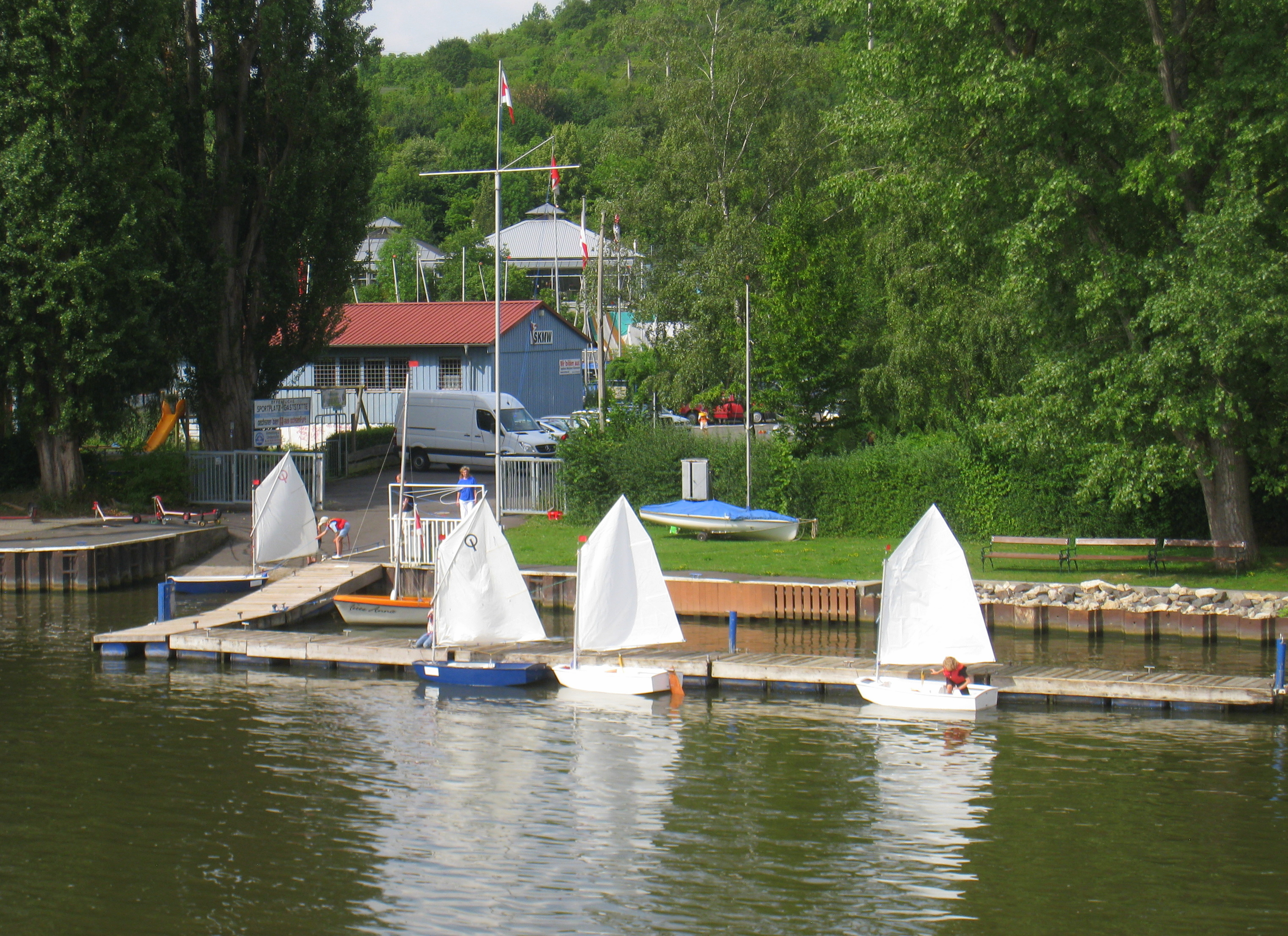 Riverside view of Veitshöchheim town, Franconia, Germany.